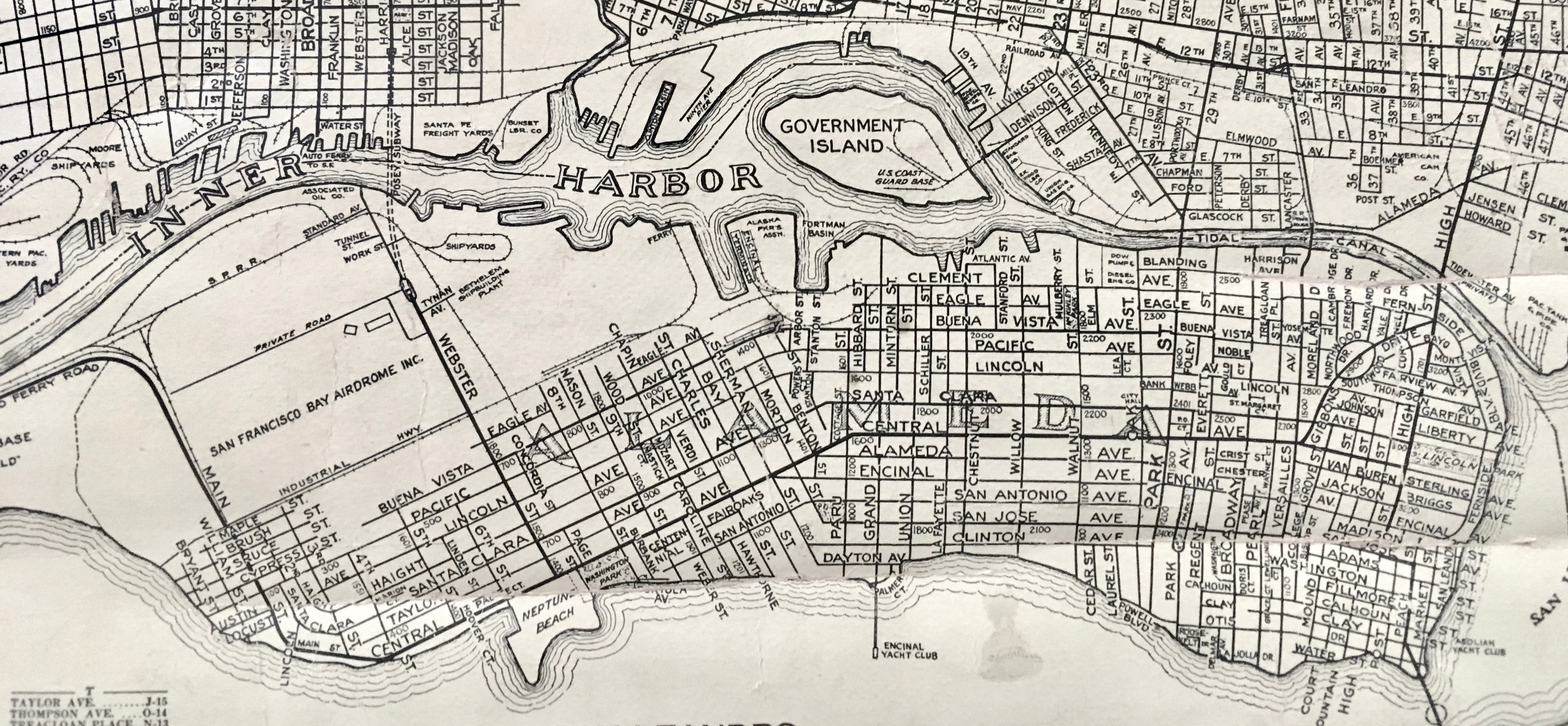 Street and transportation lines in Alameda in 1937